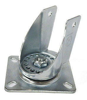 kronshtein